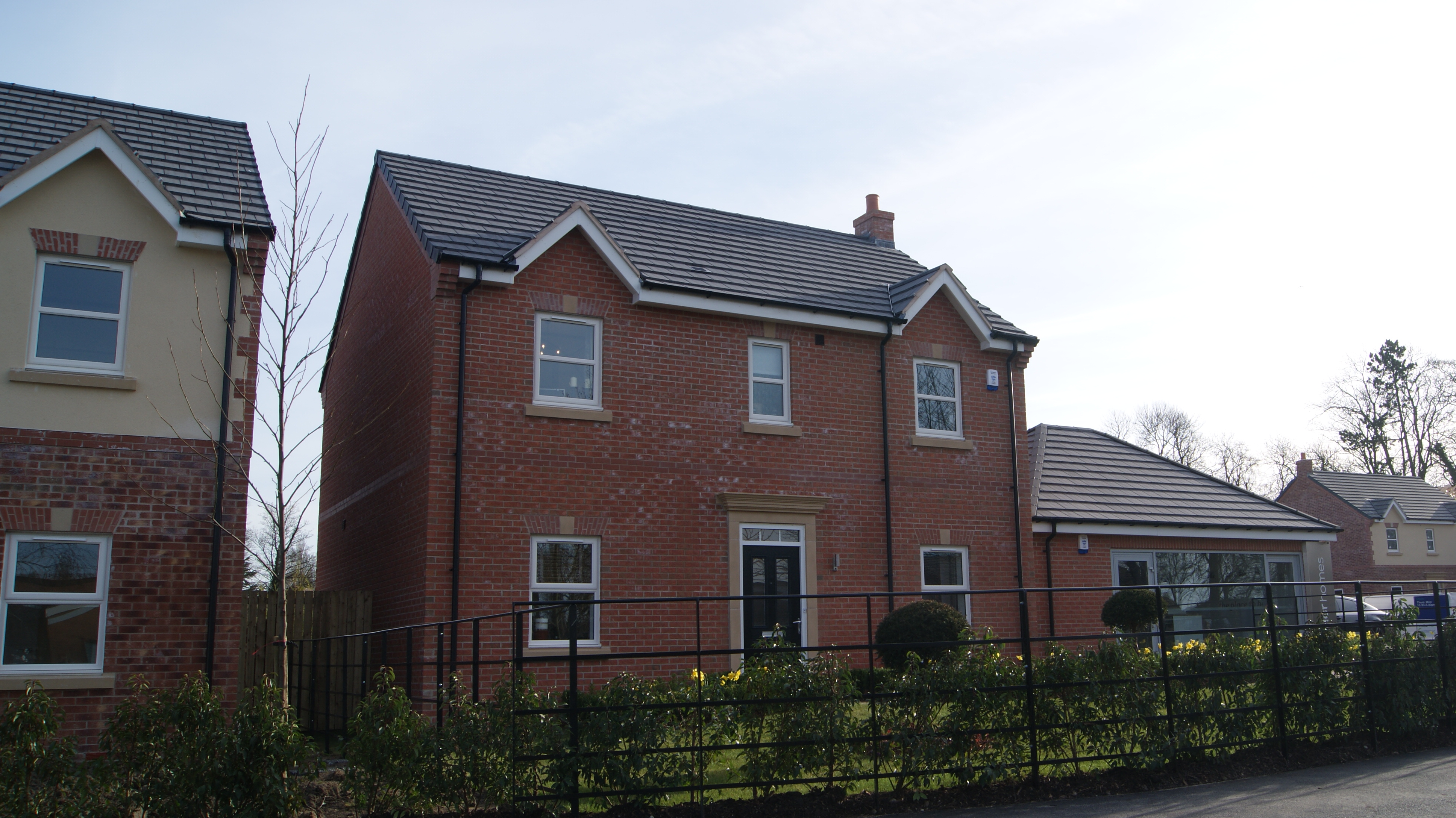 Construction of Privas Court, Wetherby, Wetherby, West Yorkshire. Taken on the afternoon of Good Friday the 25th of March 2015.